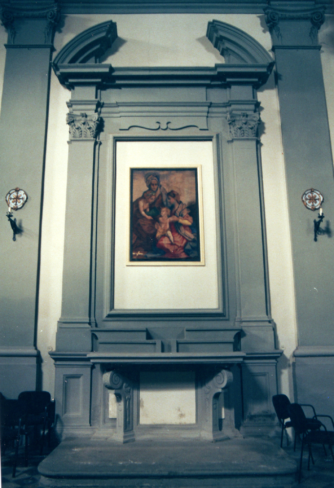 The altar in Cennano Church in Montevarchi that once was holding a lost paint of Carlo Dolci